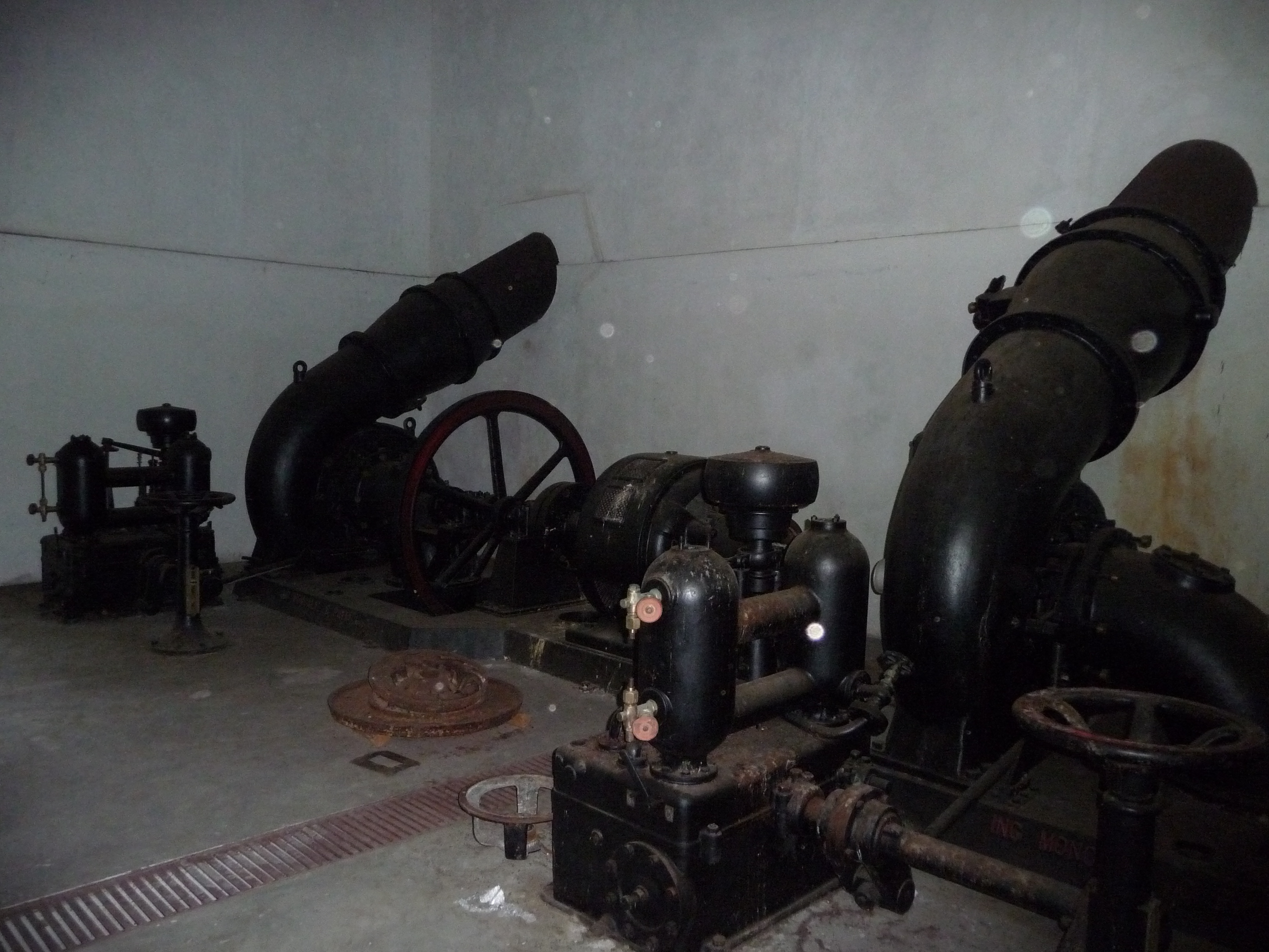 Guida hydroelectric plant - Bivongi (RC) - Italy